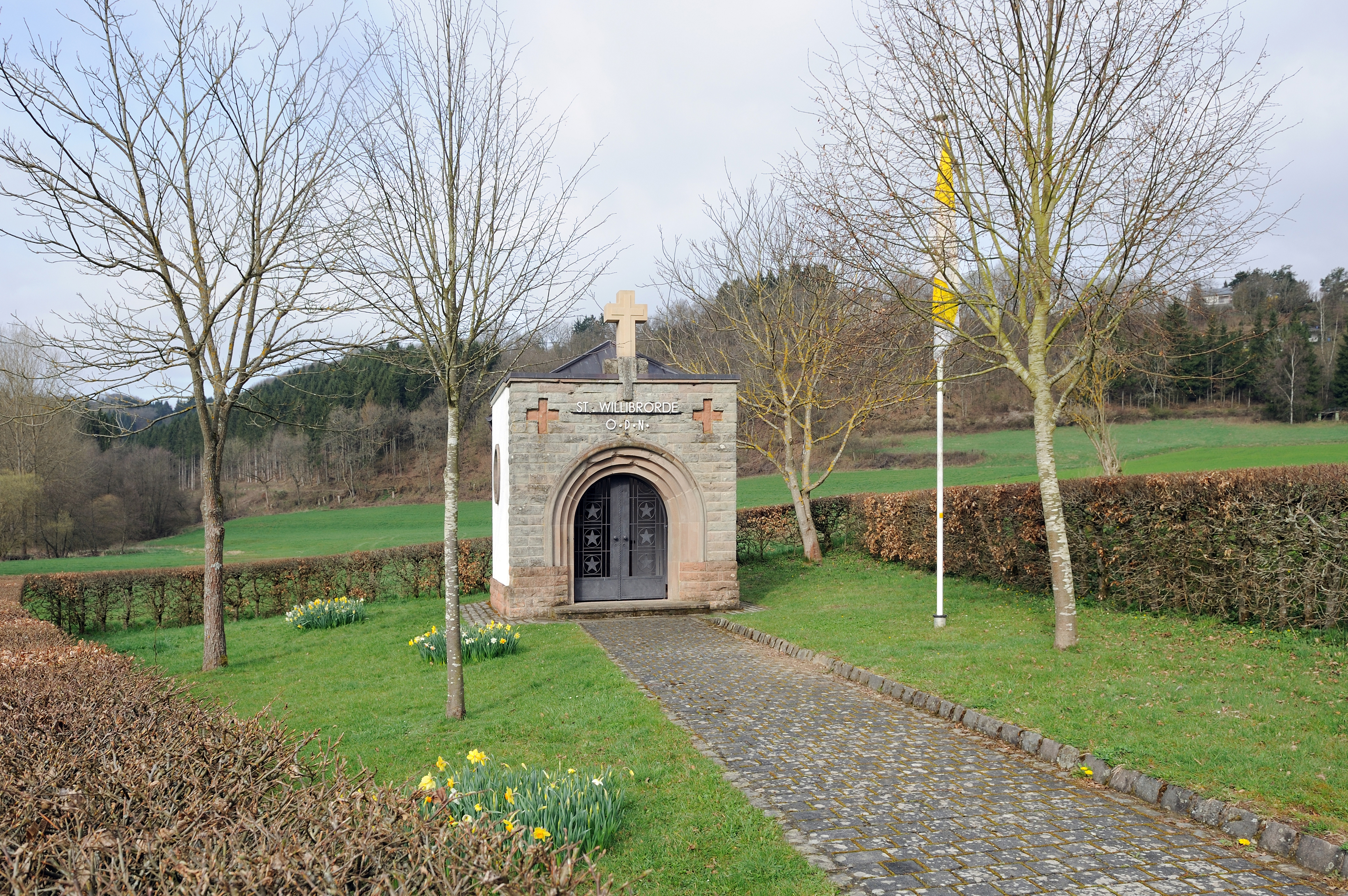 Saint Willibrord Chapel south of Wilwerwiltz.